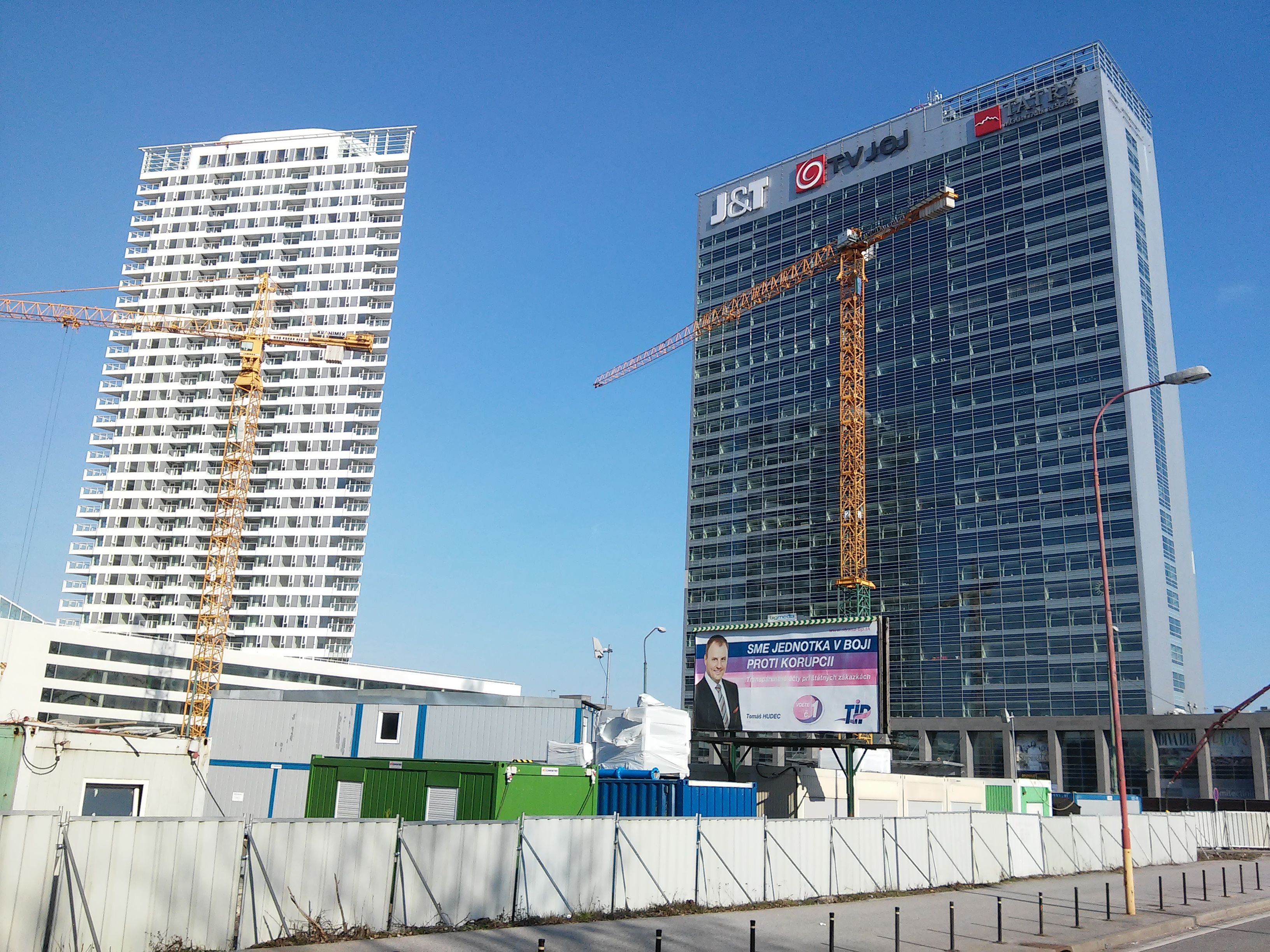 Panorama Towers, high-rise buildings in Bratislava